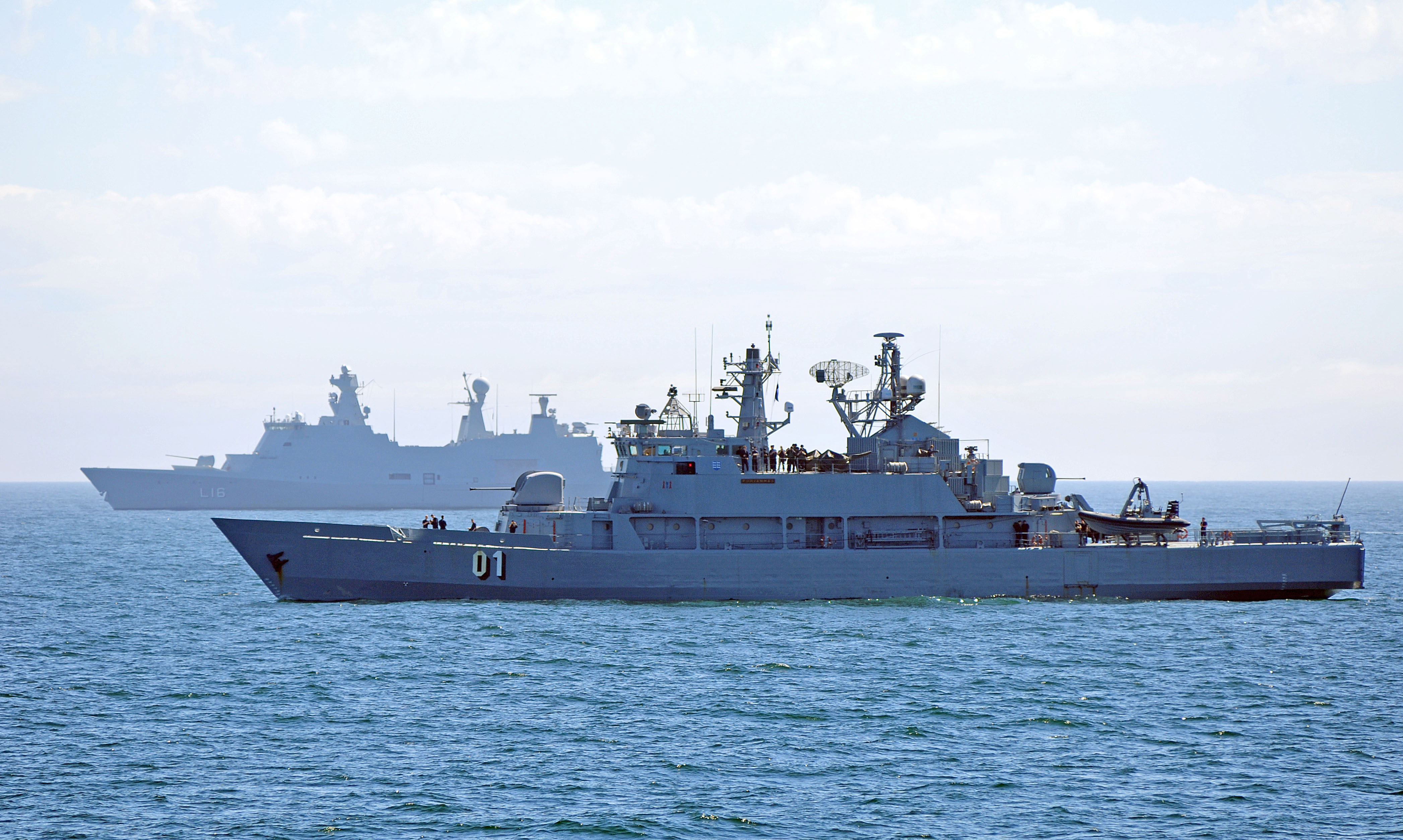 The Finnish Navy minelayer FNS Pohjanmaa (01), right, sails next to the Royal Danish Navy flexible support ship HDMS Absalon (L16) during Baltic Operations (BALTOPS) 2013 in the Baltic Sea June 11, 2013. BALTOPS is a joint and combined exercise designed to enhance multinational maritime capabilities and interoperability between the U.S. and European nations in the Baltic region.